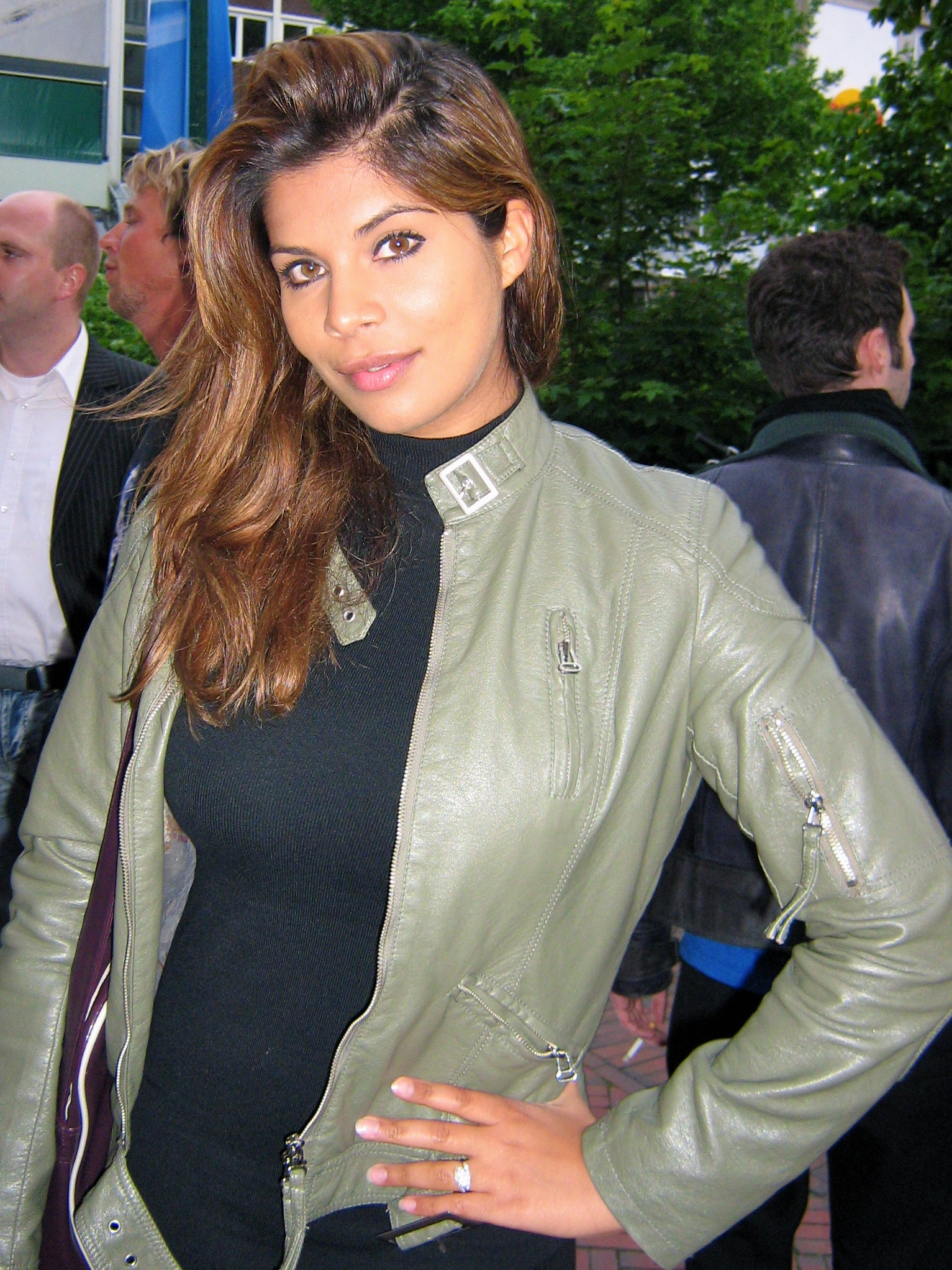 Indira Weis at the opening night of her film "Snowblind"